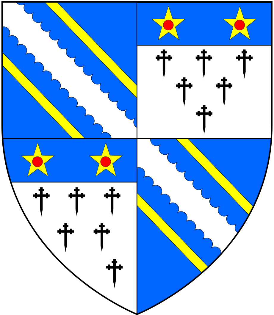 Arms of Hugh Fortescue, 1st Earl Clinton, 14th Baron Clinton (1696–1751), (Fortescue quartering Clinton), detail from top right of an engraving of Castle Hill, Filleigh, Devon, built by the earl. See File:CastleHill Filleigh TempEarlClinton.png